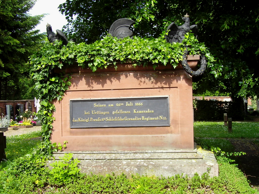 Uettingen, Bavaria, cemetery, memorial royal. prussian Greandier Regiment Nr.11 (also known as 2nd Silesian)